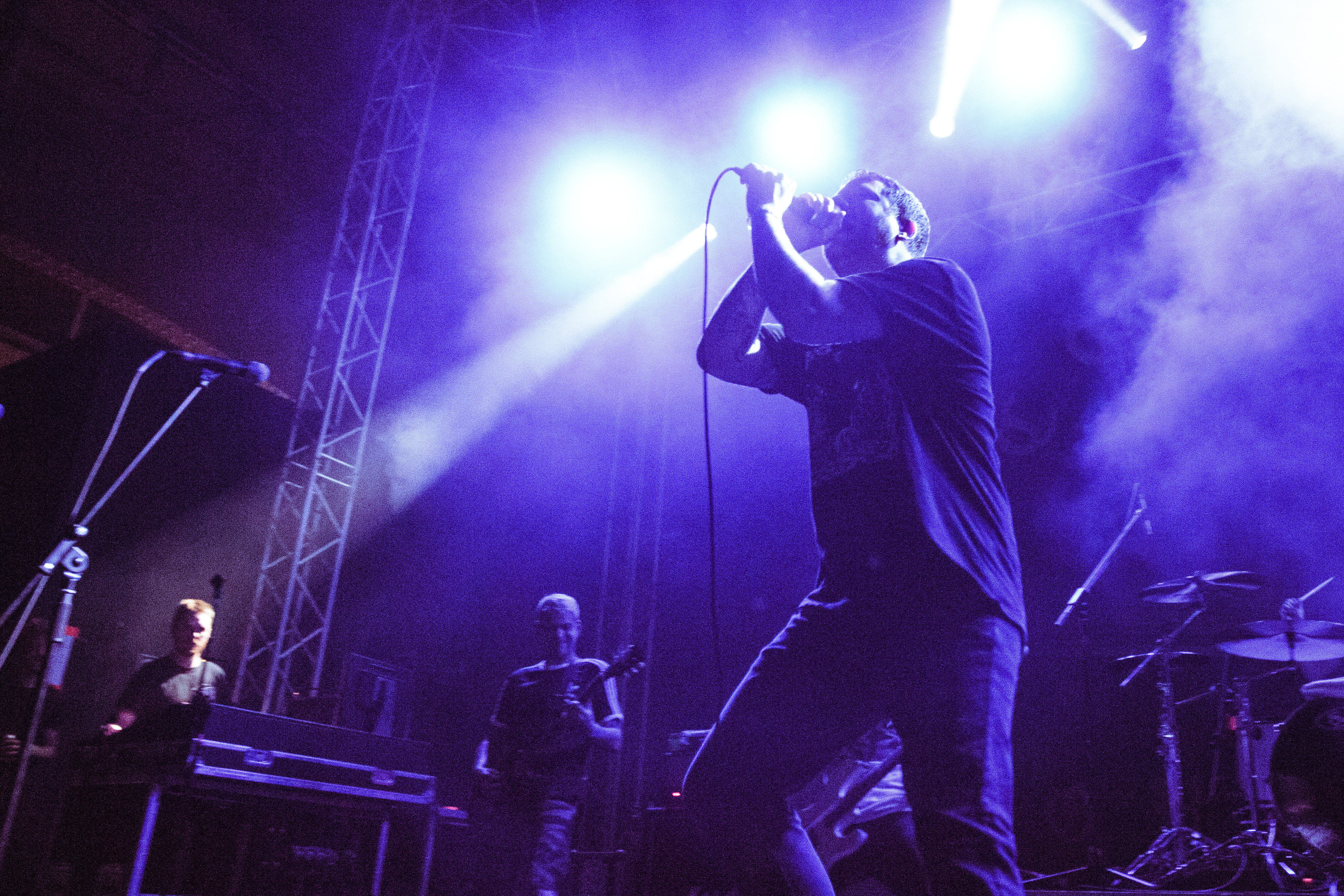 Canadian hardcore-punk group comeback kid at Impericon Festival 2018 Oberhausen (2018), Turbinenhalle, Oberhausen (DE) /// leokreissig.de for Wikimedia Commons